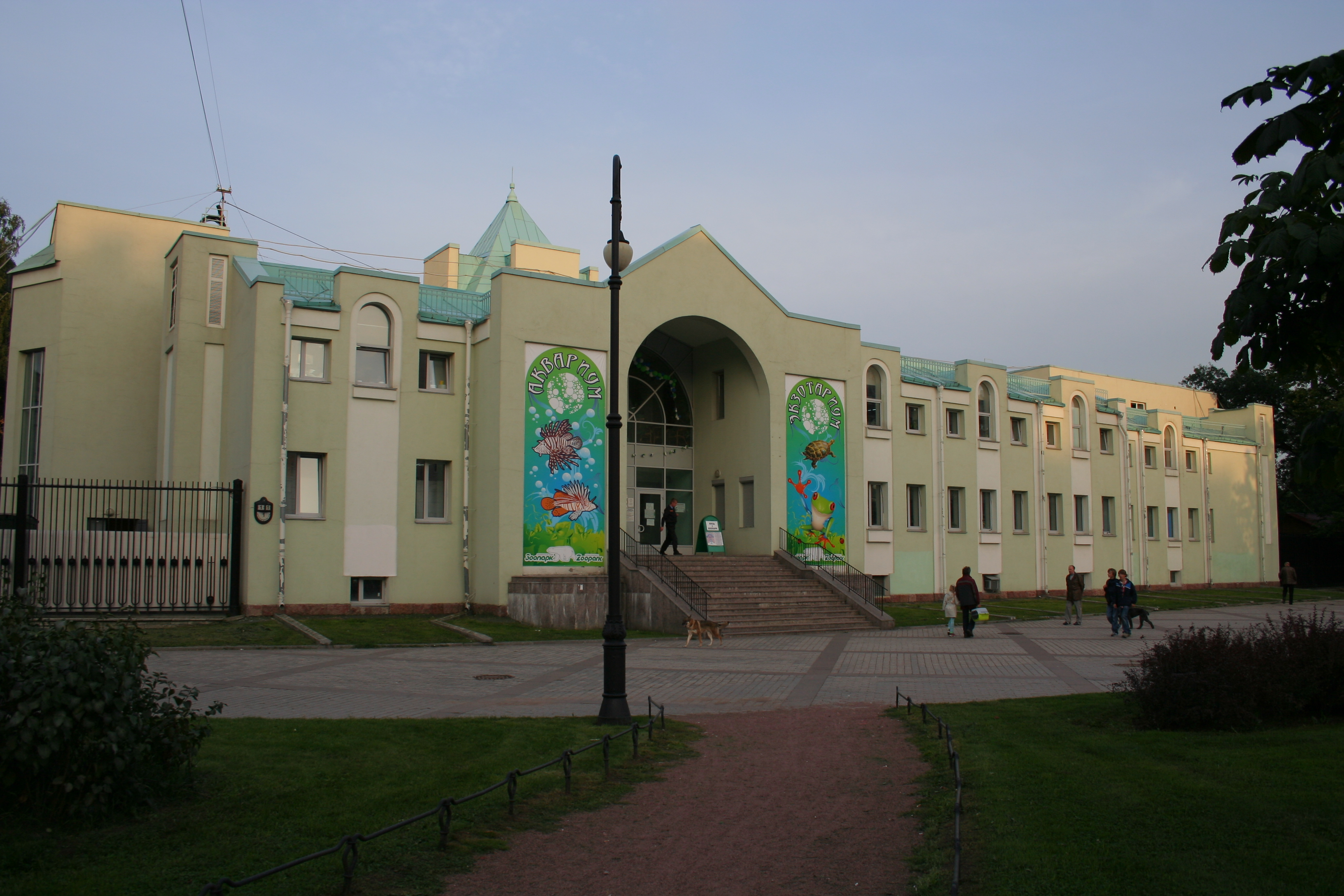 The Leningrad Zoo in Saint Petersburg. Entrance building.